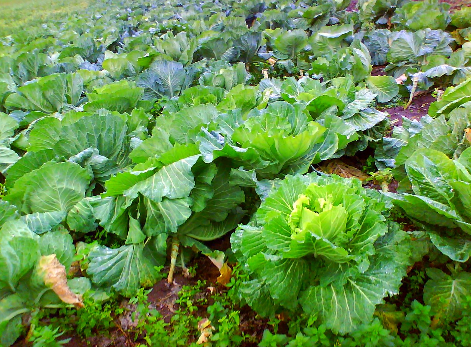 Collard greens in Galicia, Spain